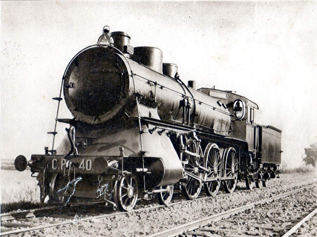 402 locomotive